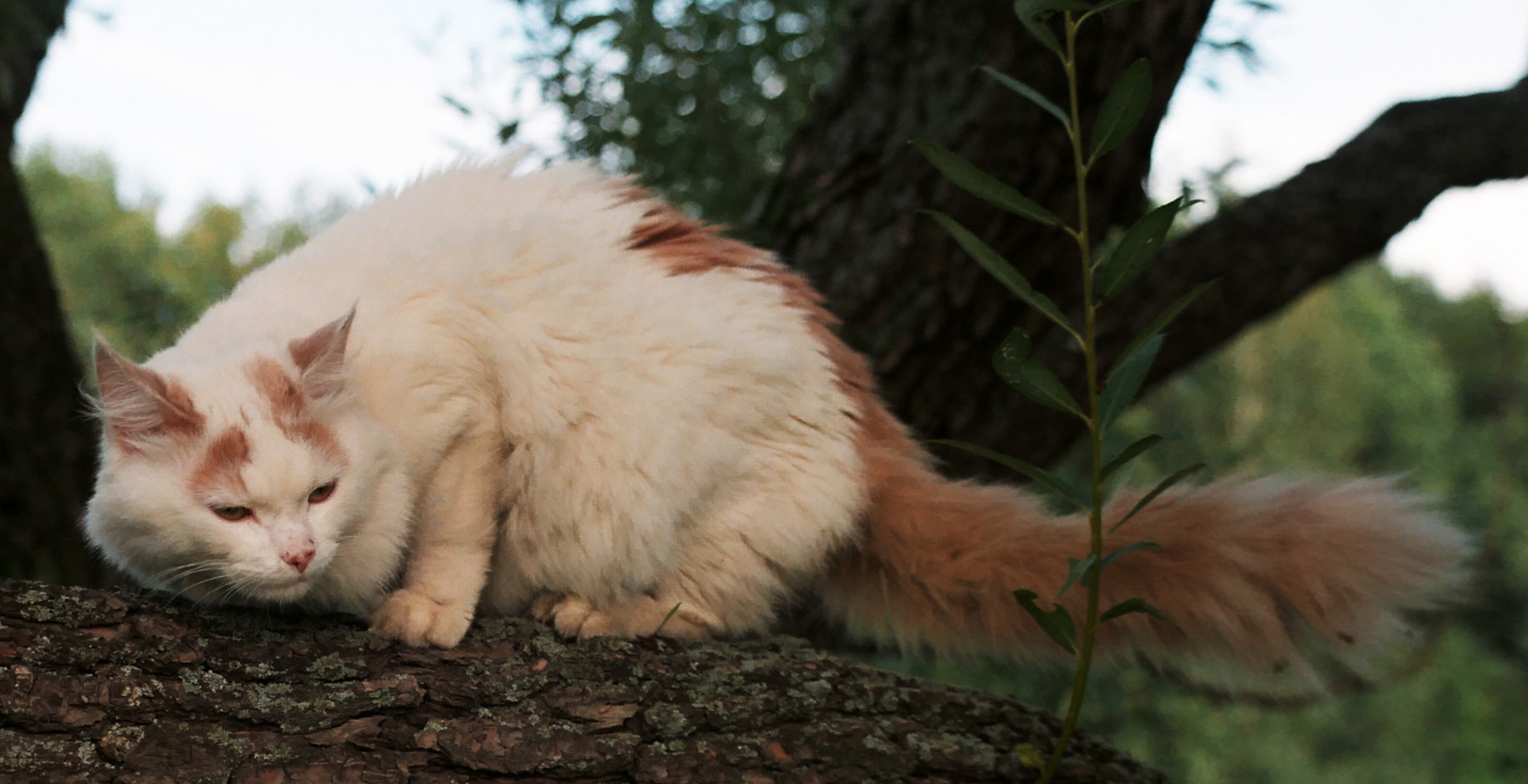 A picture of my male Turkish Van cat, 15 year old. The Turkish Van is a rare, naturally occurring breed of cat from the Lake Van region of Turkey. Turkish Vans have been nicknamed the "Swimming Cats"